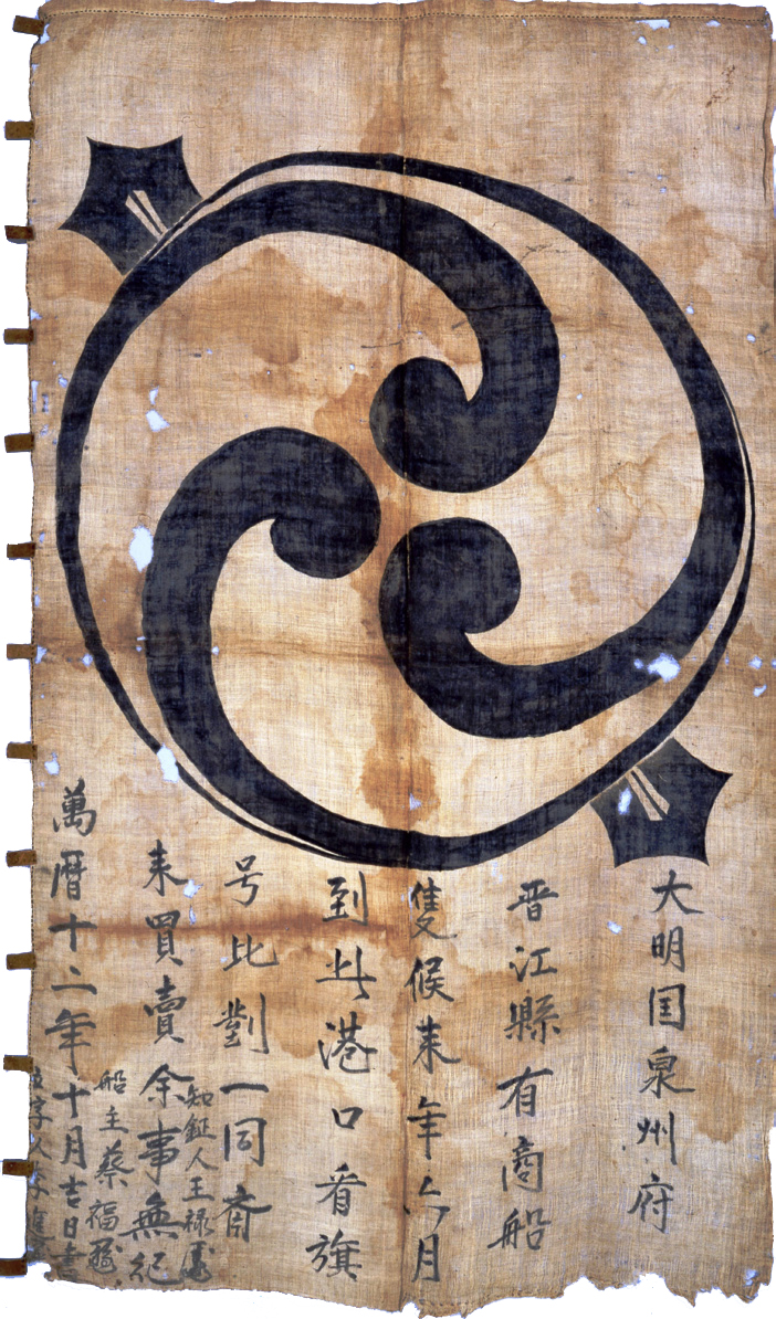 Japan-Ming Trade Ship Flag, made of hemp and dating to 1584, 167 cm x 95 cm, private ownership, deposited at Yamaguchi Prefectural Archives, Yamaguchi, Yamaguchi, Japan; Important Cultural Property